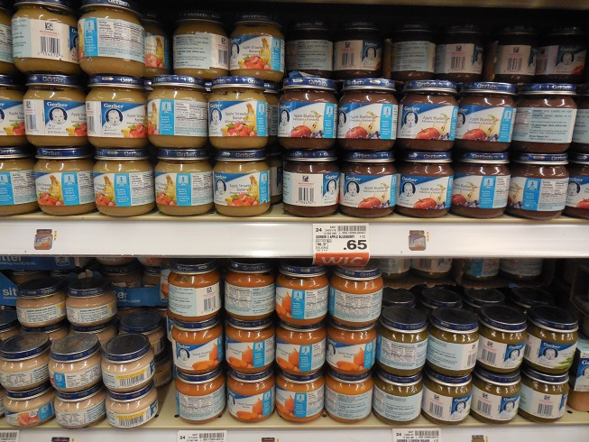 Jarred Gerber Baby Food